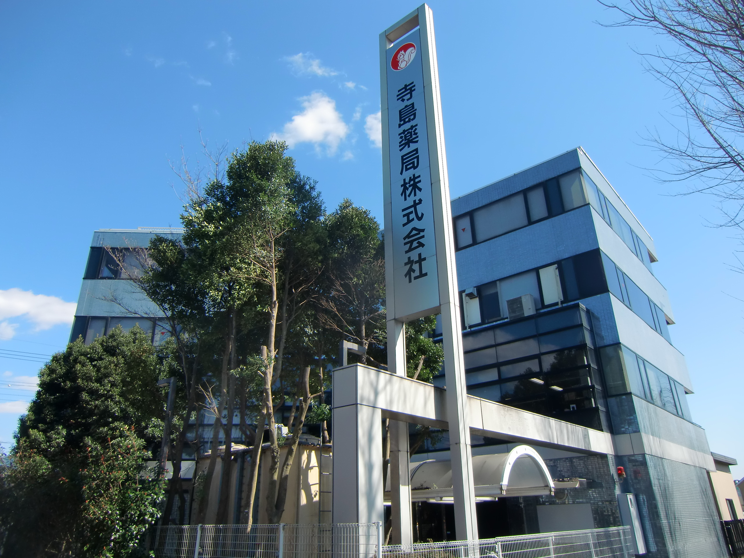 Terashima Co.,Ltd. Head office in Amakubo 2-chome, Tsukuba city, Ibaraki prefecture, Japan.